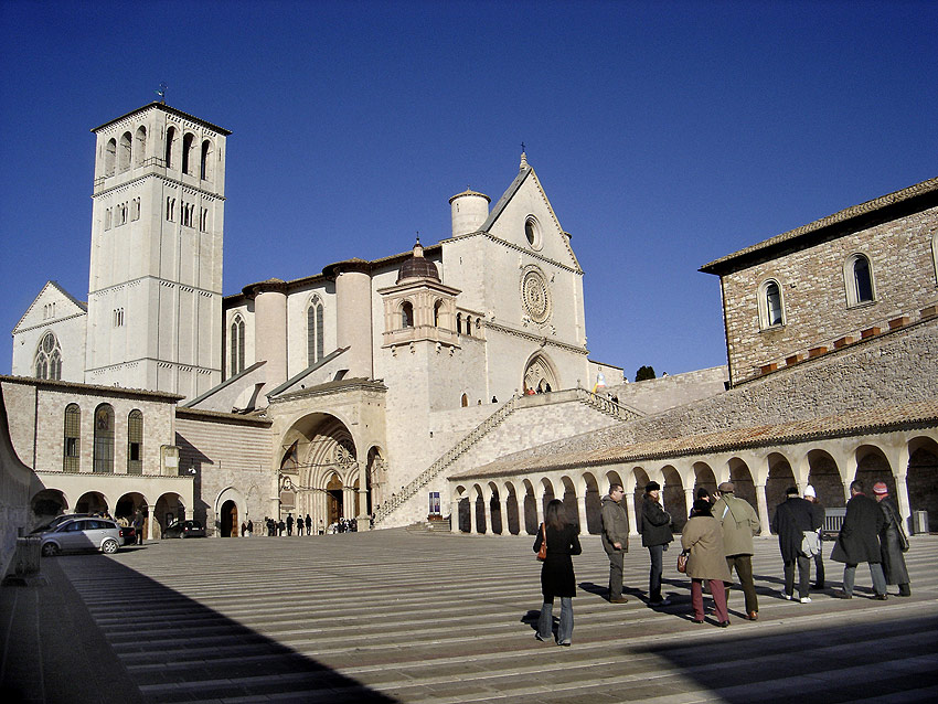 Basilica of San Francesco d'Assisi.